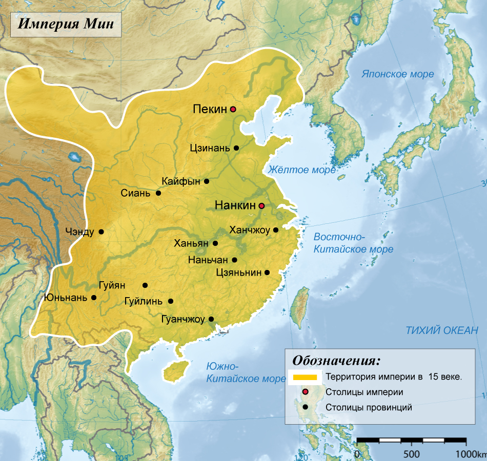 Territories of the Ming Empire in 15th century